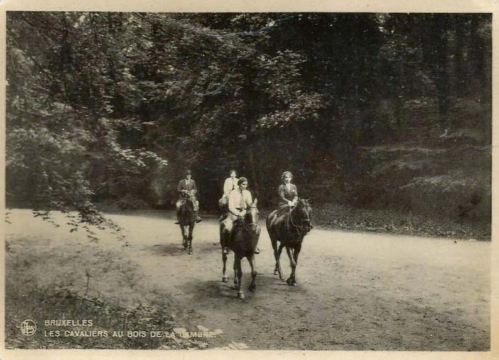 The riders of the Bois de la Cambre